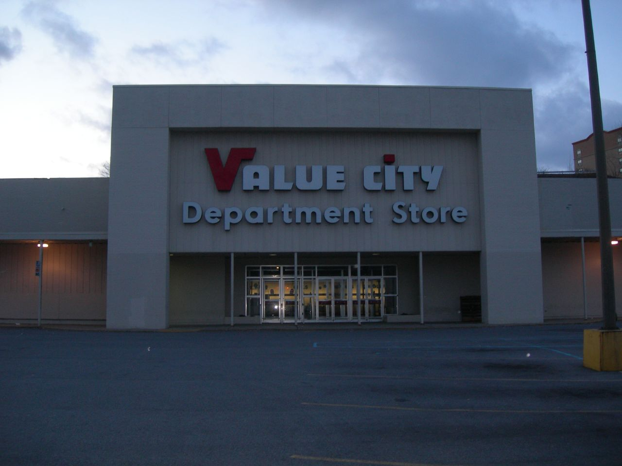 Picture of the front of the Value City Department Store located in Altoona, PA